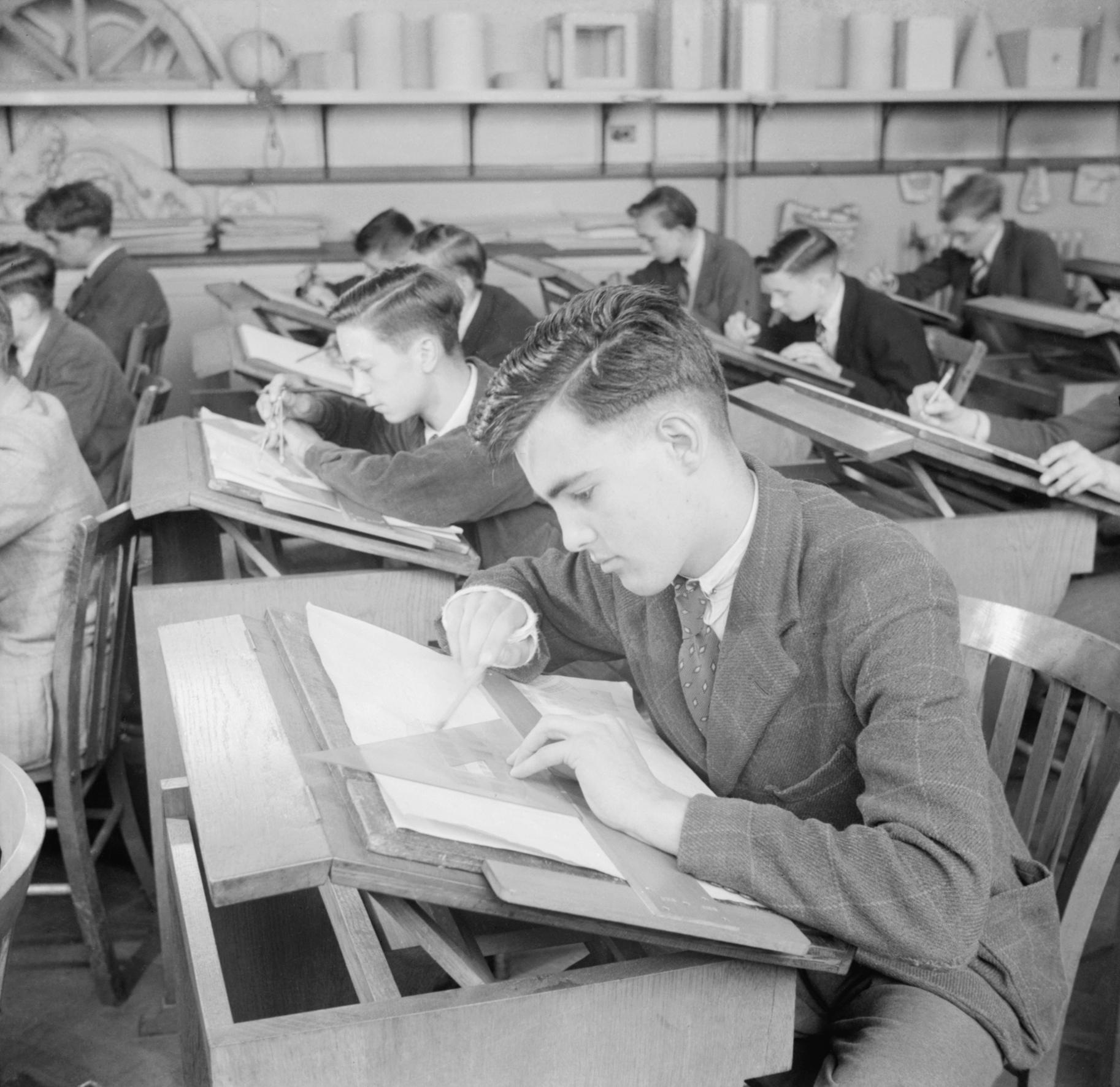 Students in Tottenham Technical college after the war years.